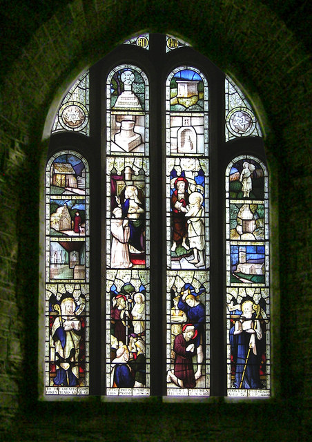 Church Window at St Morwenna and St John the Baptist's